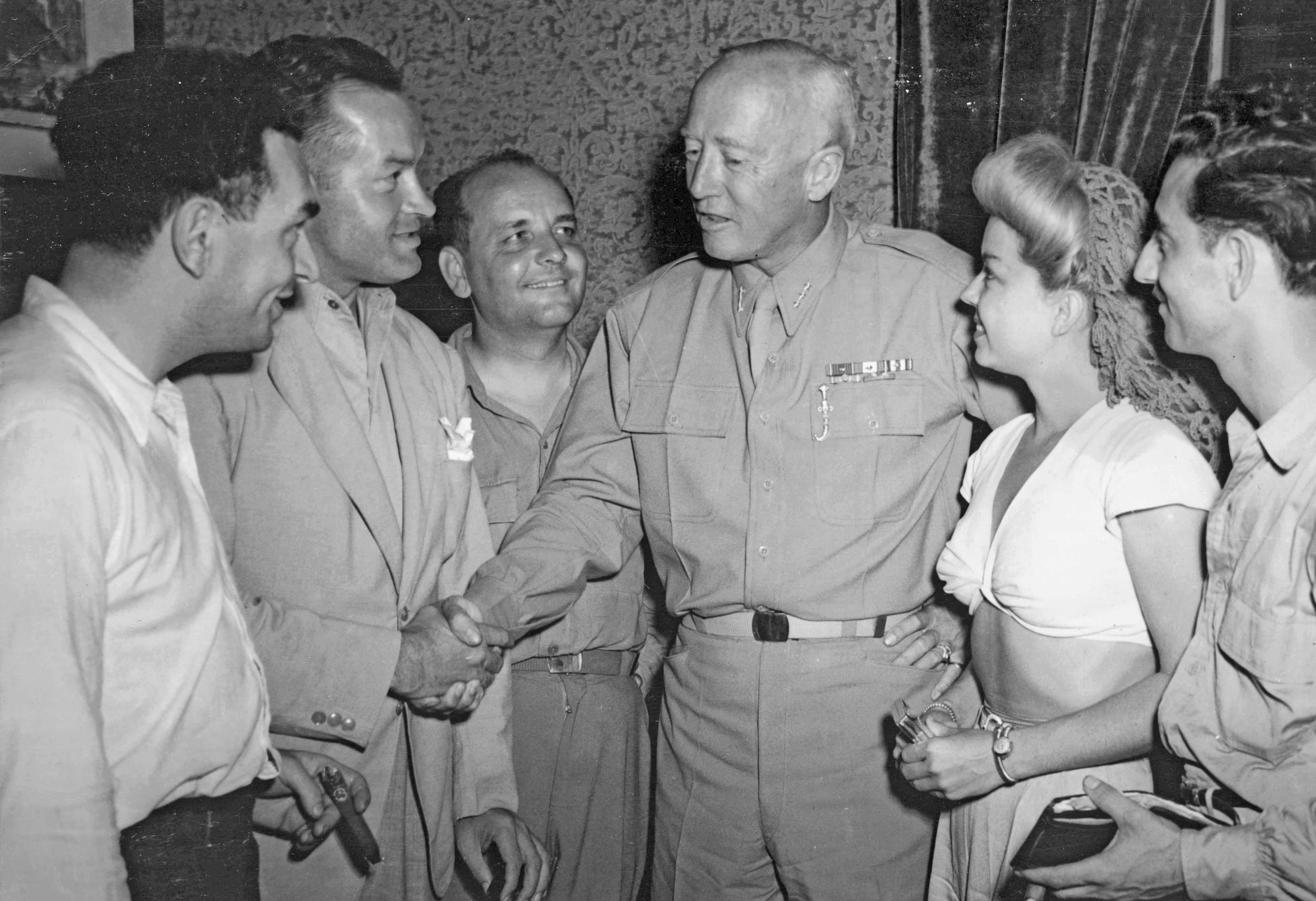 From left to right: Hal Block, Bob Hope, Barney Dean, General George S. Patton, Frances Langford and Tony Romano. Sicily, August 21, 1943. Significance of photo: Bob Hope and his USO troupe arrived in Sicily three days after the Seventh Army took the key town of Messina. Patton asked Hope to tell his radio audience “that I love my men.” This was soon after Patton had slapped two hospitalized soldiers accusing them of cowardice. Patton was attempting to appear more compassionate during Hope's visit. - (from LOC description)